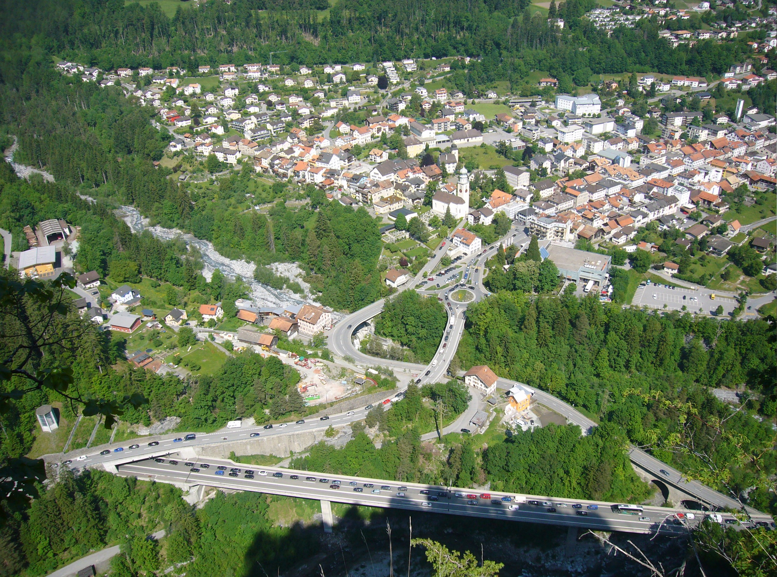 Via Mala is a historical and recent transit route through the swiss alps. Today, the road dating from 1821 or 1967 can be used for the whole length.